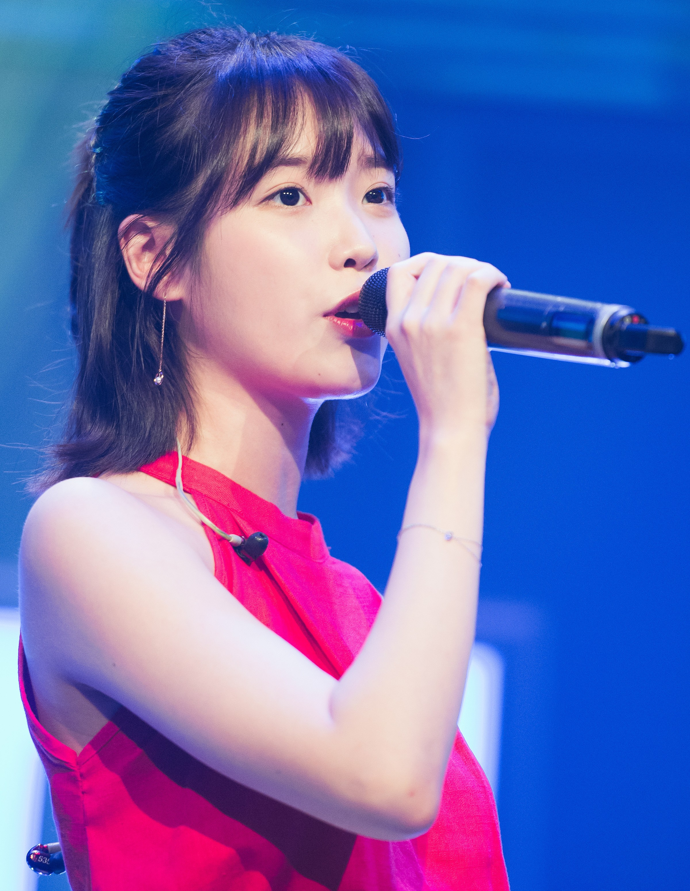 IU at Sudden Attack Champions League congratulatory performance, 14 July 2017